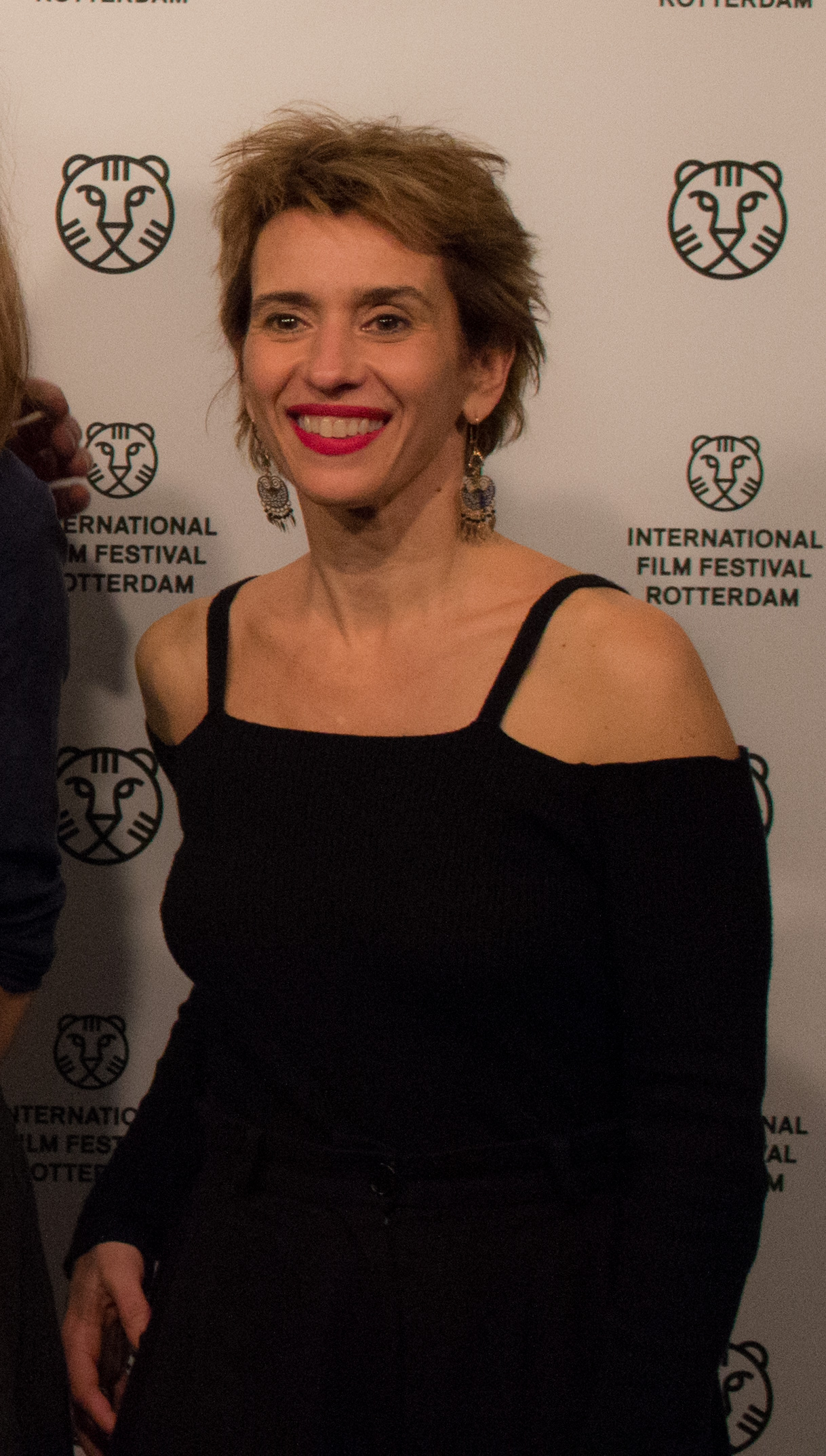 Teresa Saponangelo promoting the movie "Porselein" at the IFFR 2020